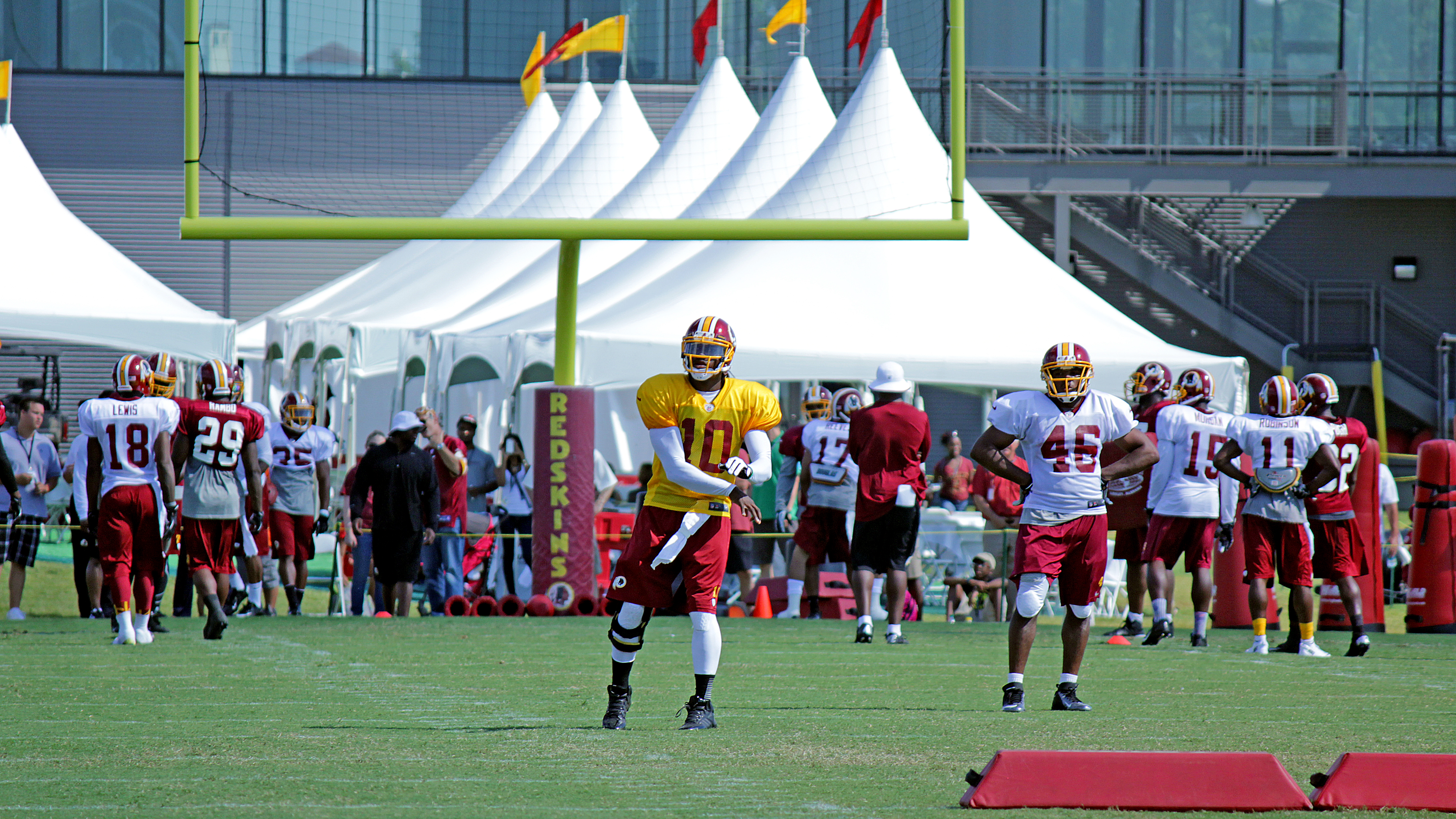 Robert Griffin III Redskins QB at Camp in Richmond Virginia July 2013